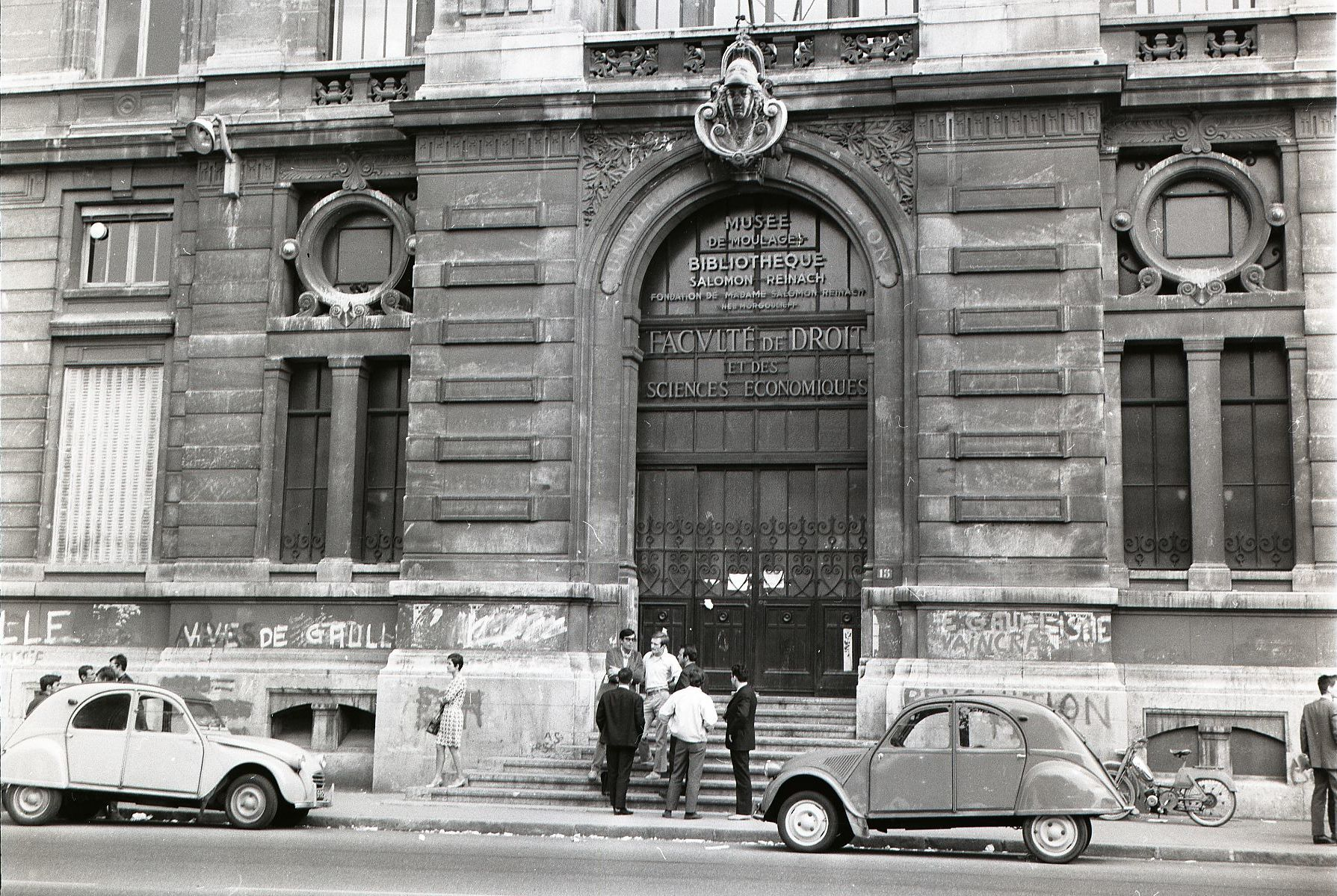 Exterior of University of Lyon Law School, library and museum during May 1968 events in France. Graffiti includes "Vive De Gaullisme" with, at left, the word ABAS (down with) written over Vive.